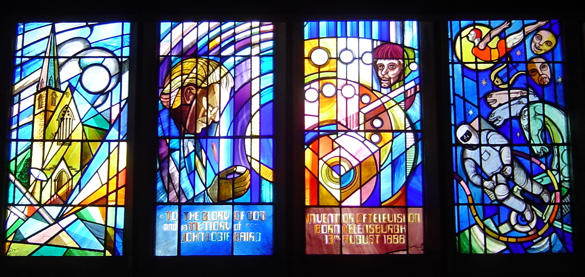 John Logie Baird window in Helensburgh Parish Church